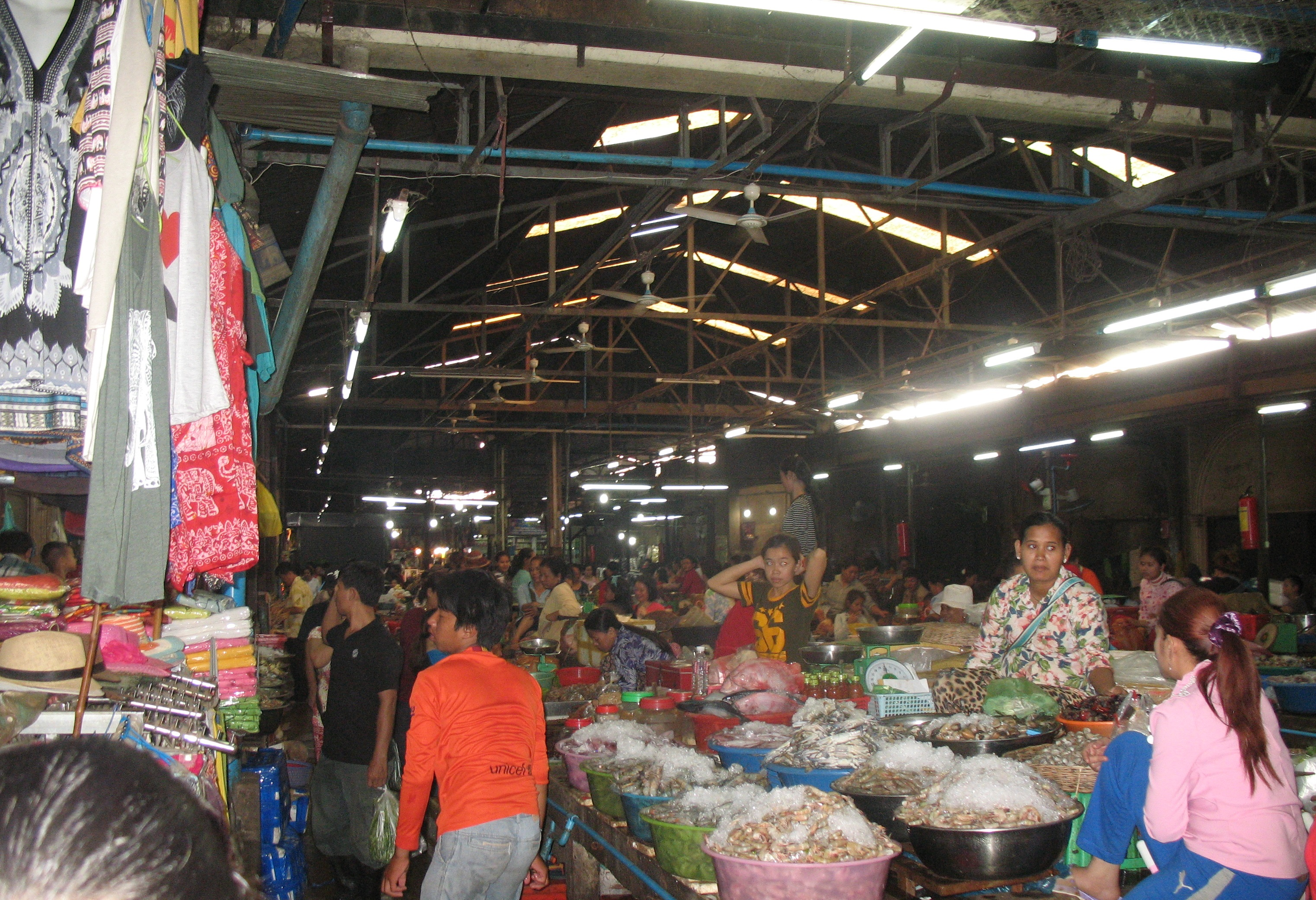 A view of the Old Market (Psar Chas) in Siem Reap